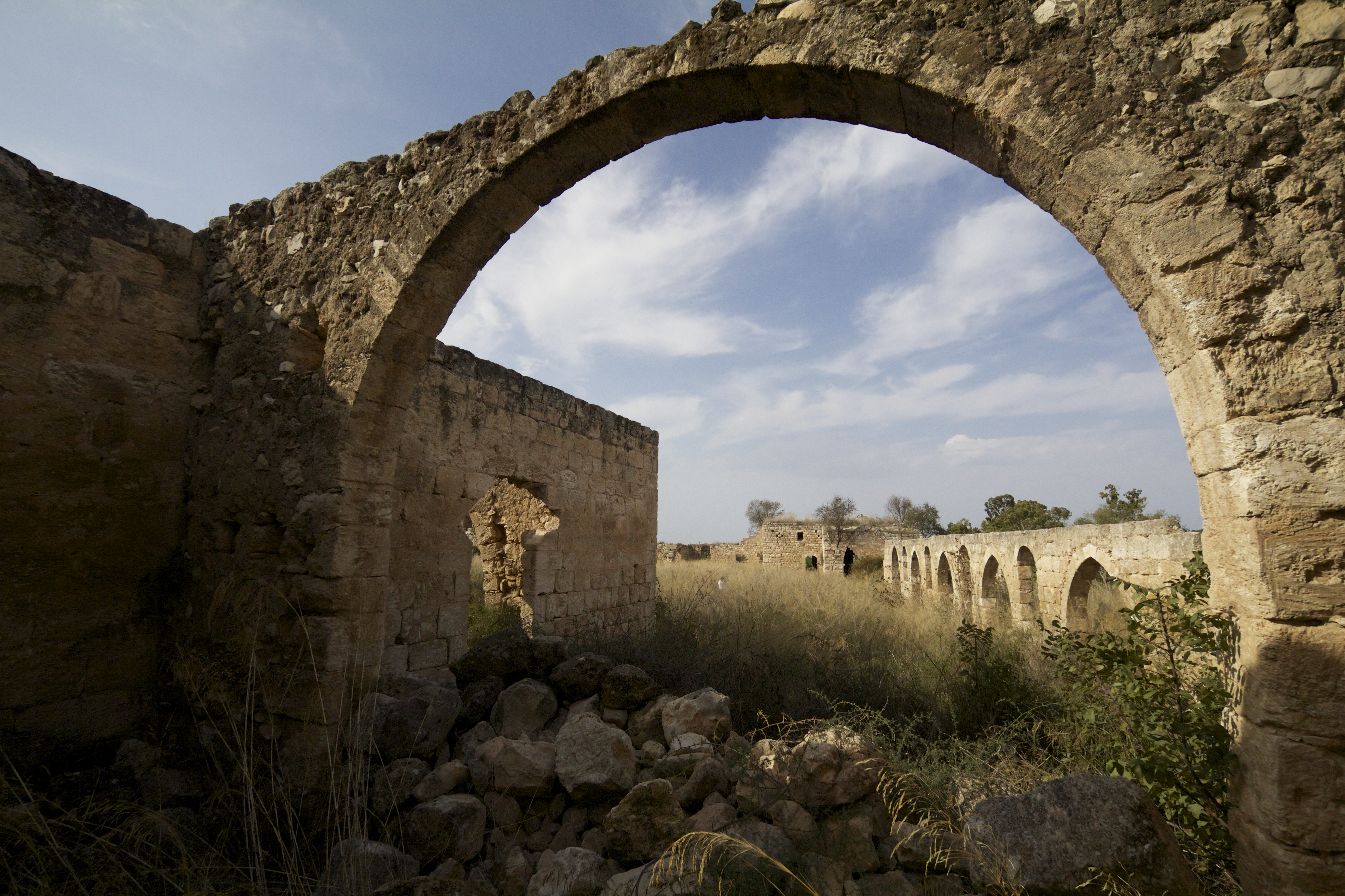 Sursock Khan (caravanserai) in Ga'aton, Israel